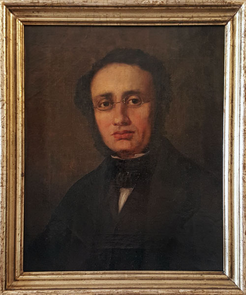 Portrait of Friedrich Adolf Philippi, University of Rostock collection